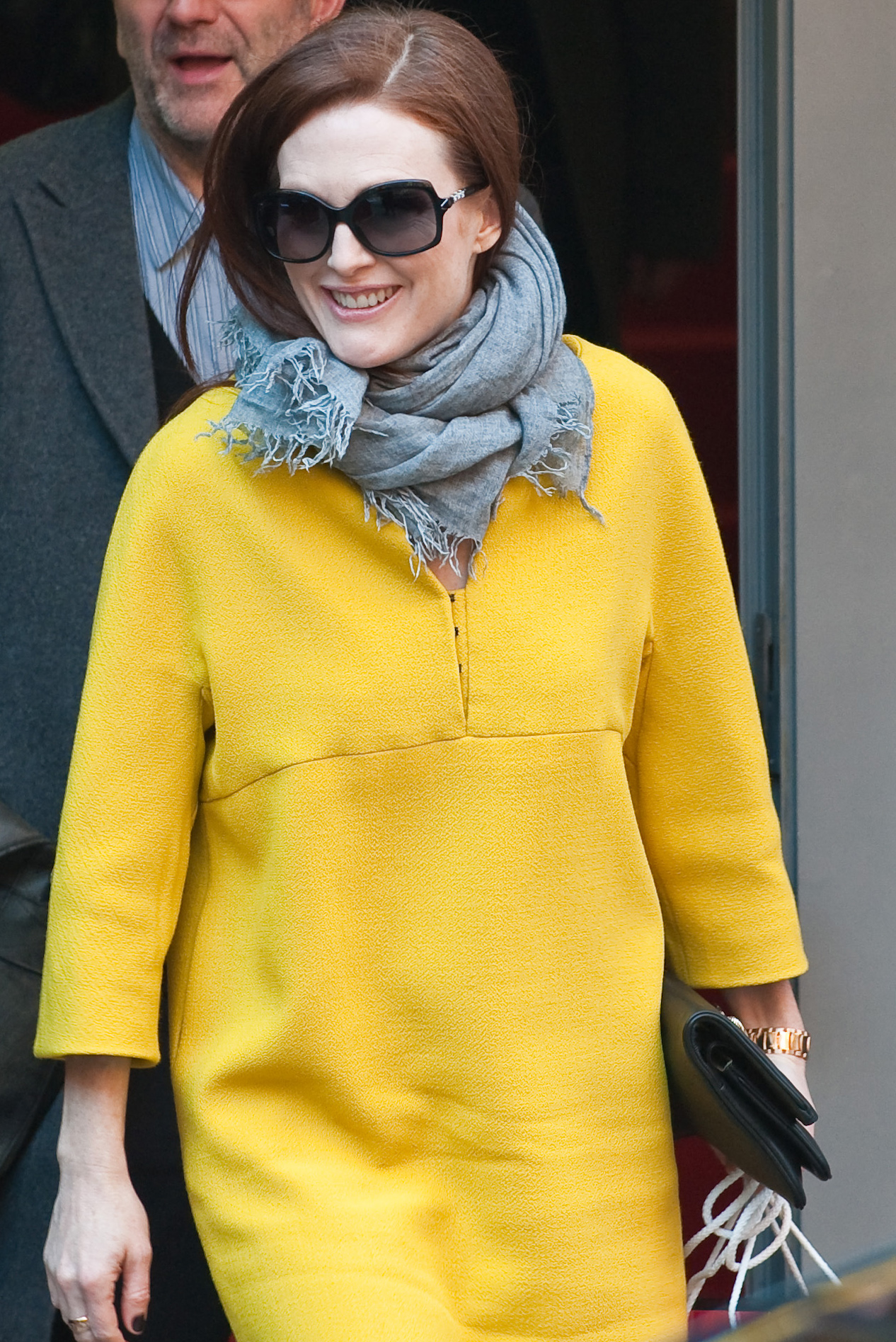 Julianne Moore leaving the press conference for THE KIDS ARE ALL RIGHT at the 2010 Berlinale